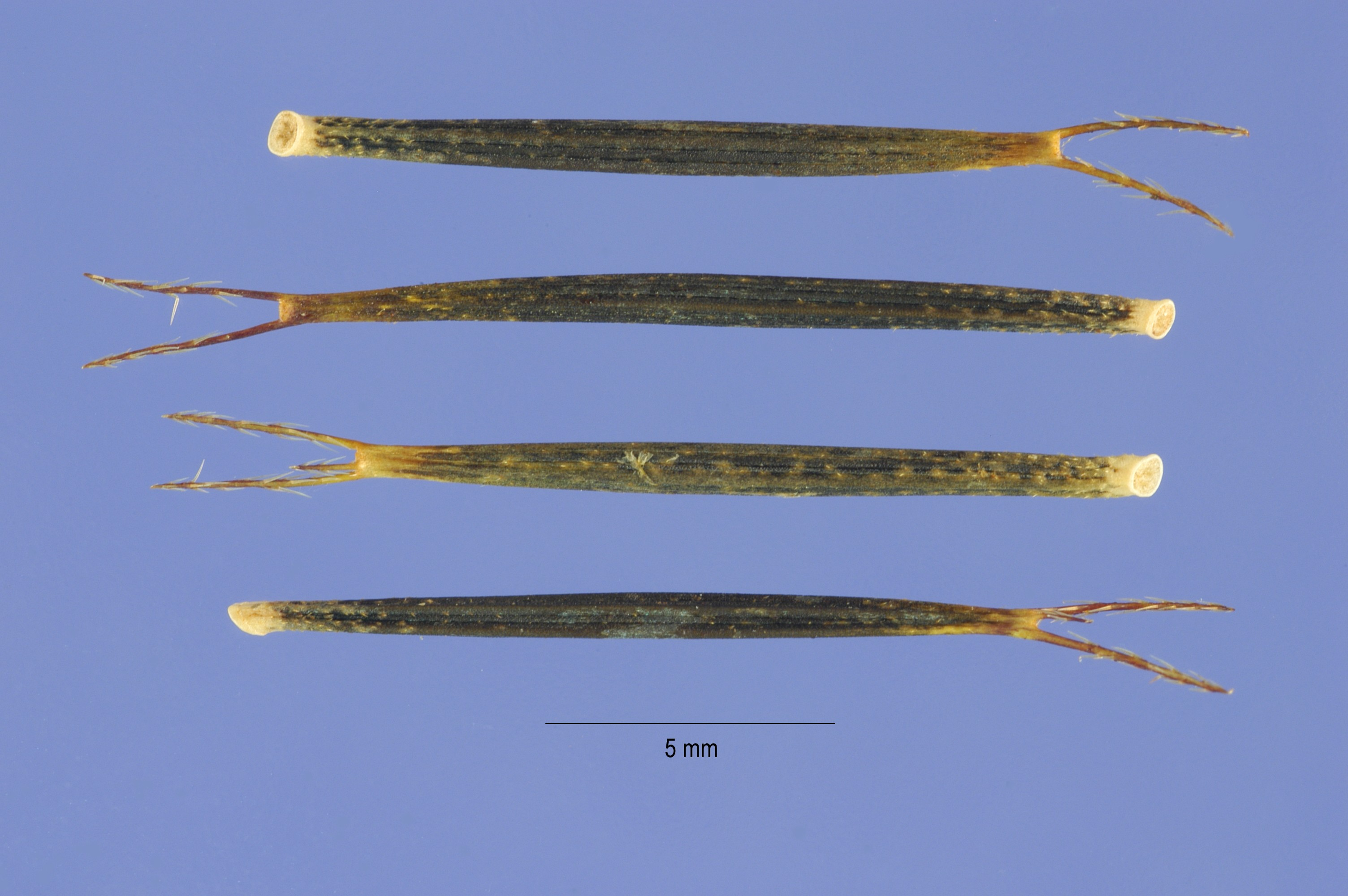 seeds of Bidens bipinnata from Steve Hurst, Provided by ARS Systematic Botany and Mycology Laboratory. United States, MD